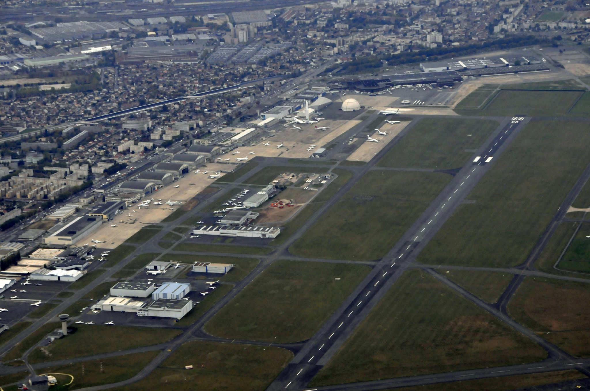 Le Bourget Airport